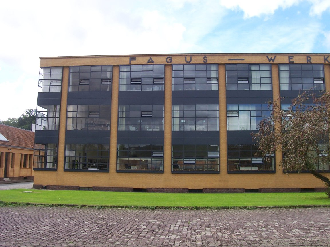 Fagus Factory Alfeld